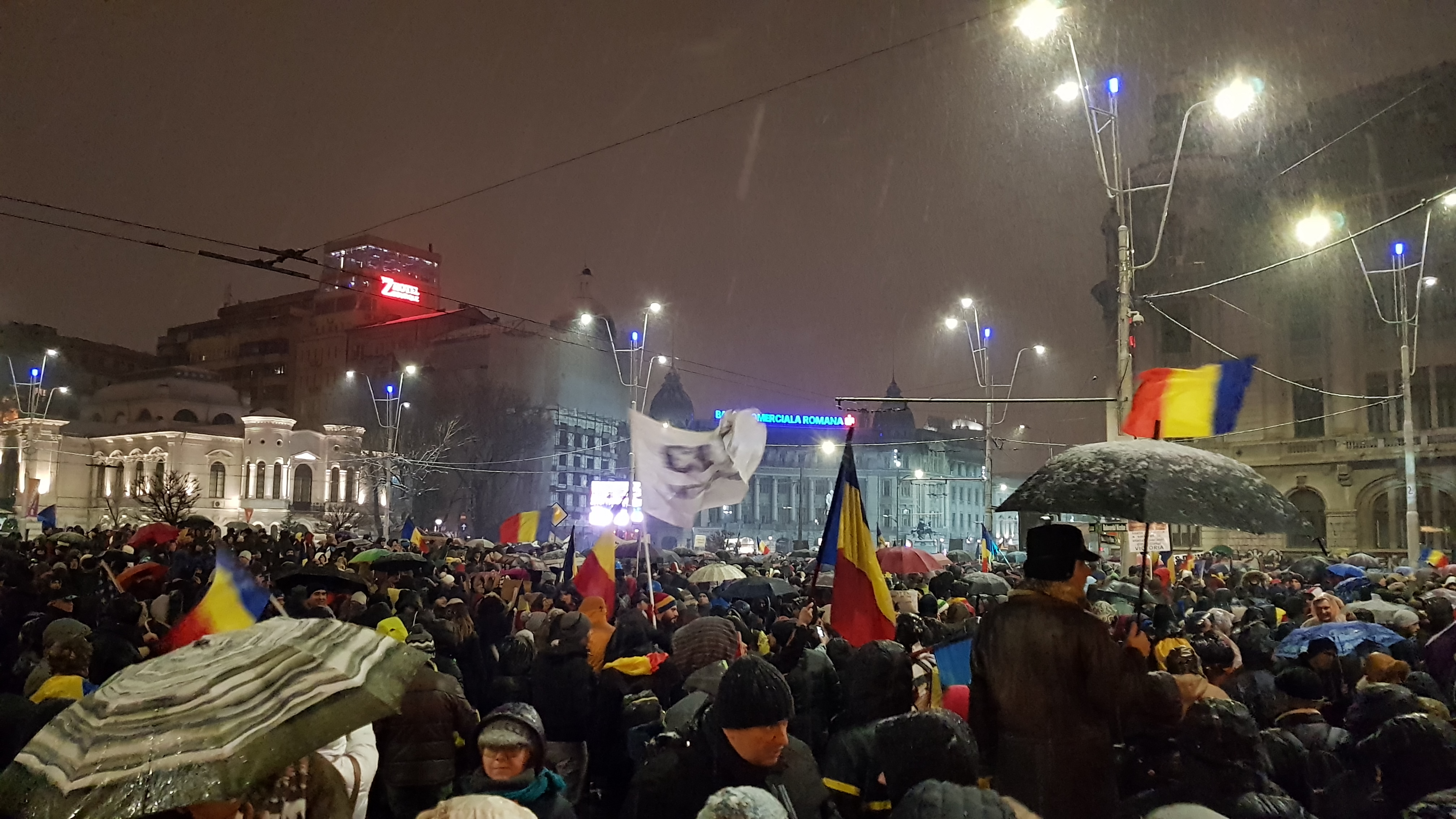 20 January-Protest against corruption - Bucharest 2018 - Piata Universitati